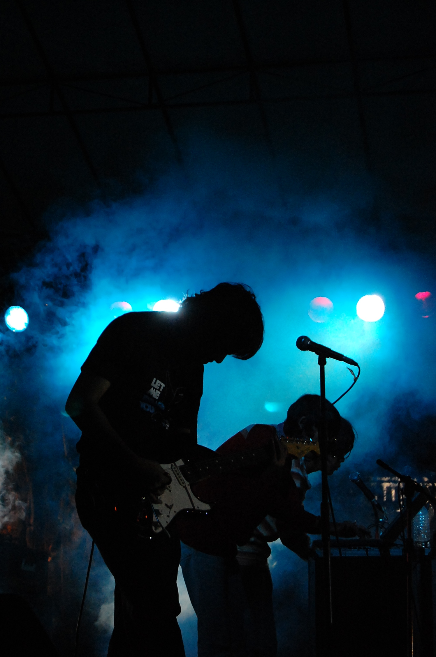 This picture was taken when Elemental Gaze played at Kickfest 2007 in Bandung.